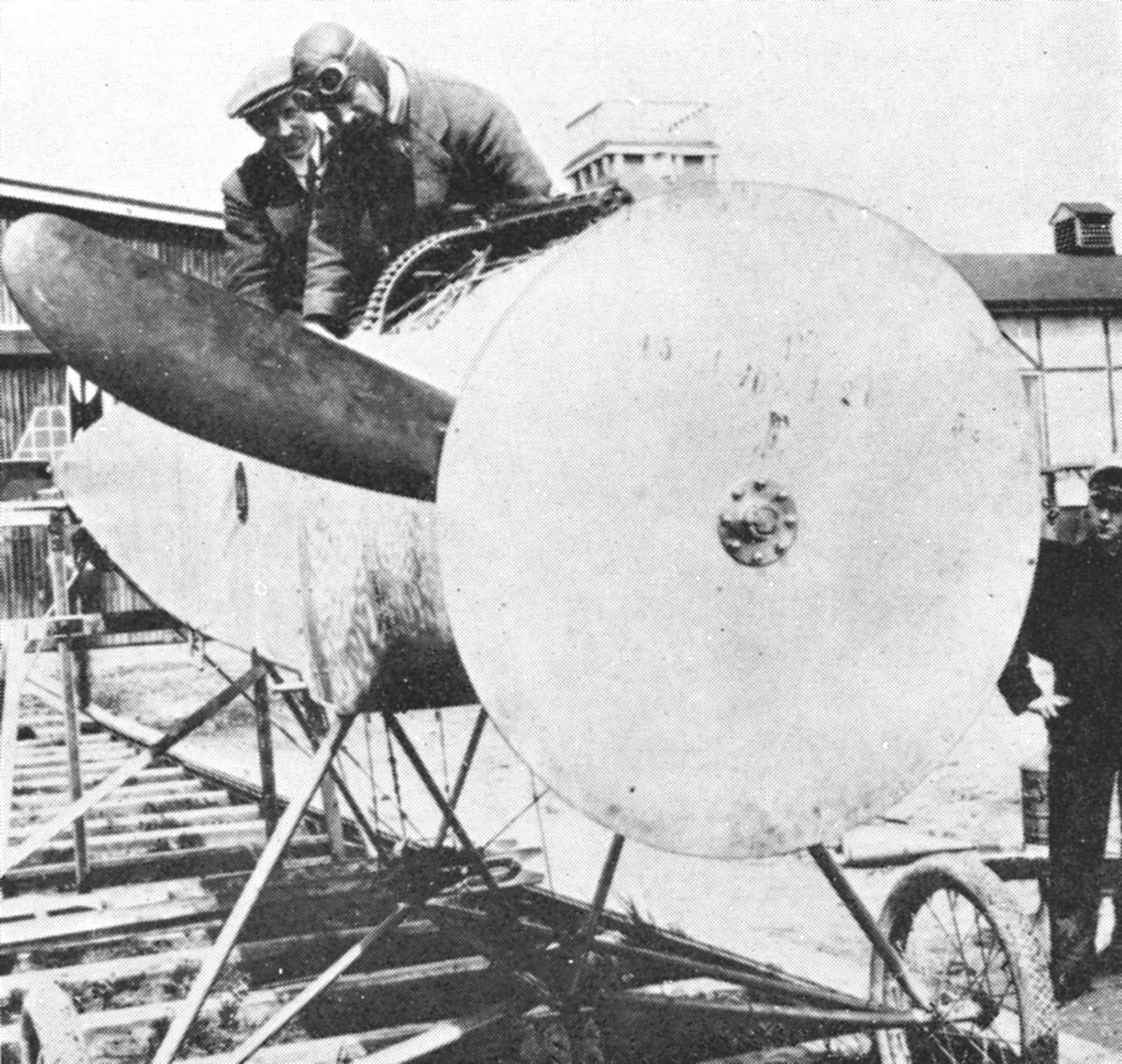 Fokker synchronisation gear set up for ground test - wooden disc records points on the arc of fire where each round passes the propeller.